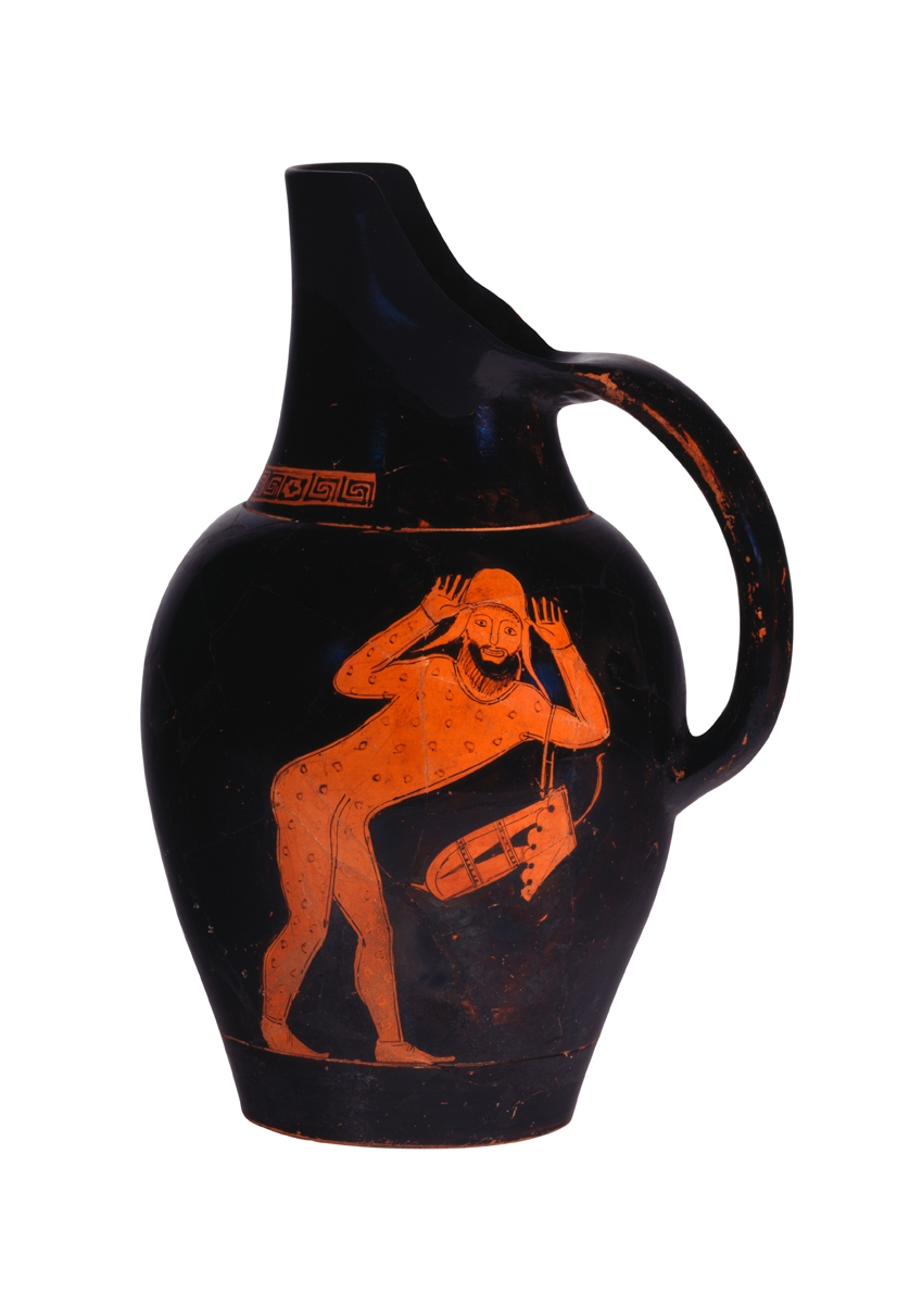 the B side of the Eurymedon vase